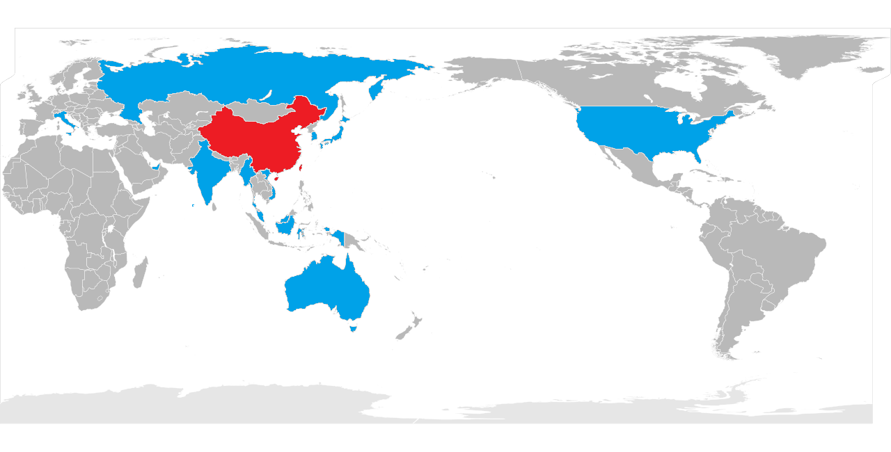 international serves from ZHHH